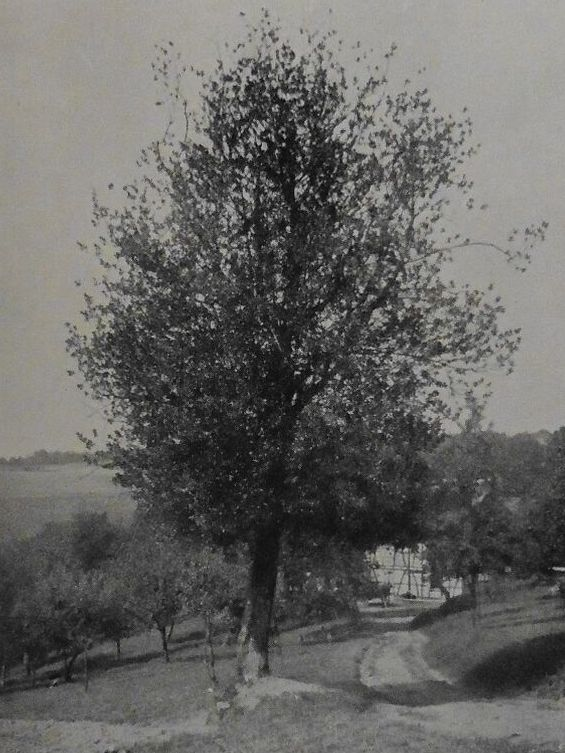 "Dr. Foerster-Hülse" - Tree, Mittel-Enkeln, photo taken by himself, 1911/1917